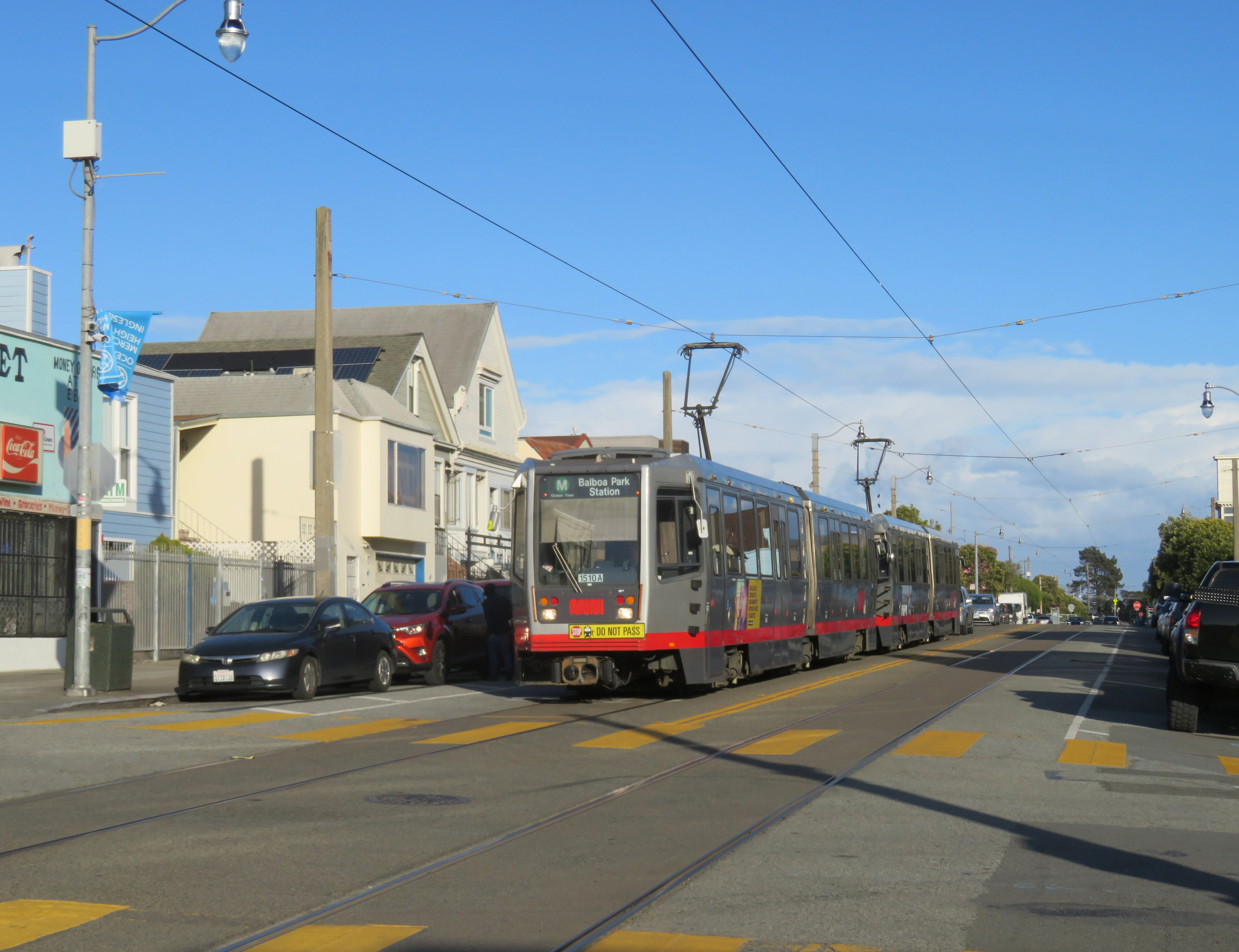 An inbound train at Broad and Capitol in February 2019